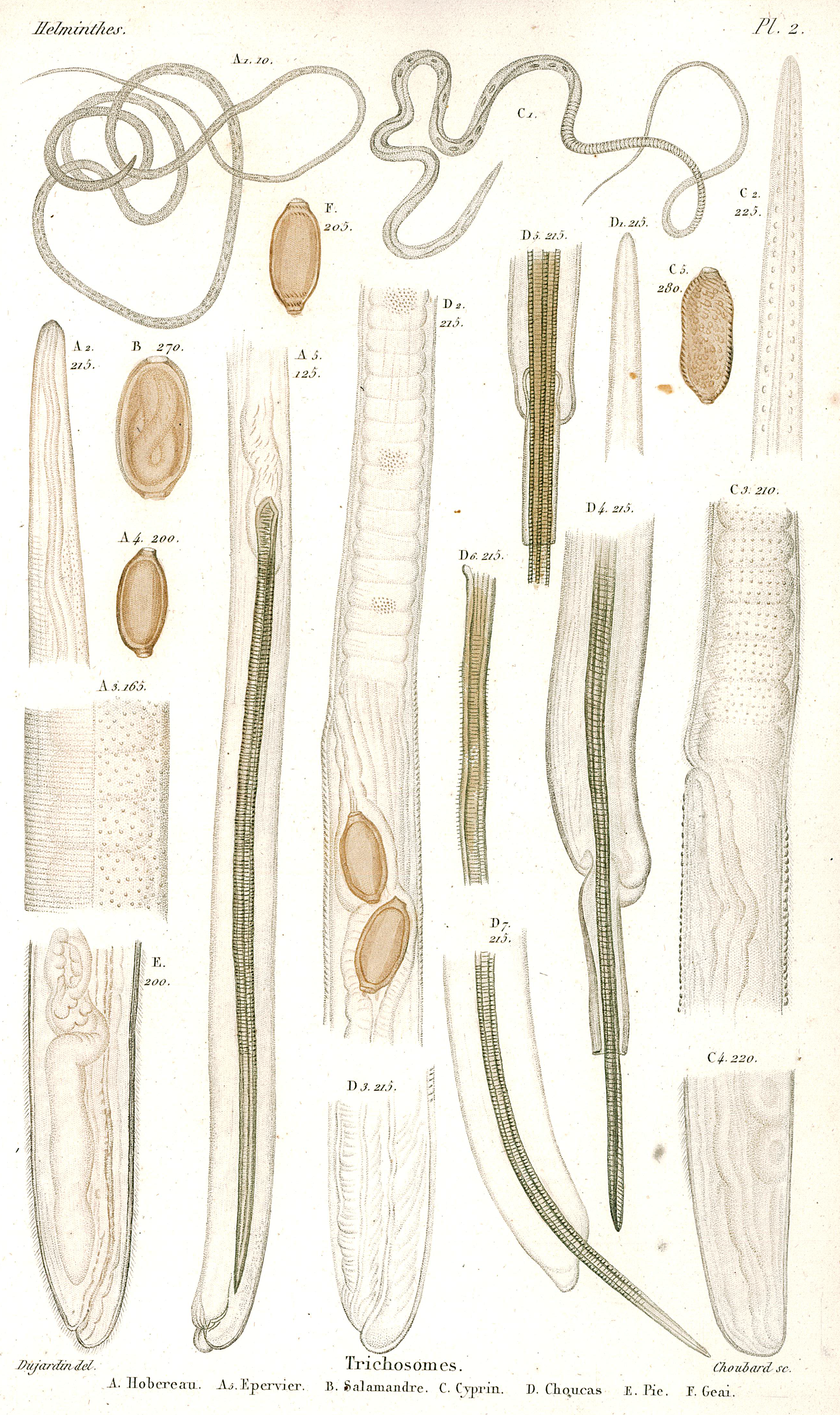 Dujardin, F. (1845). Histoire naturelle des helminthes ou vers intestinaux. Paris: Librairie encyclopédique de Roret. Plate 2 Full text, including caption of this Plate, available from BHL: Scan from original book by Jean-Lou Justine